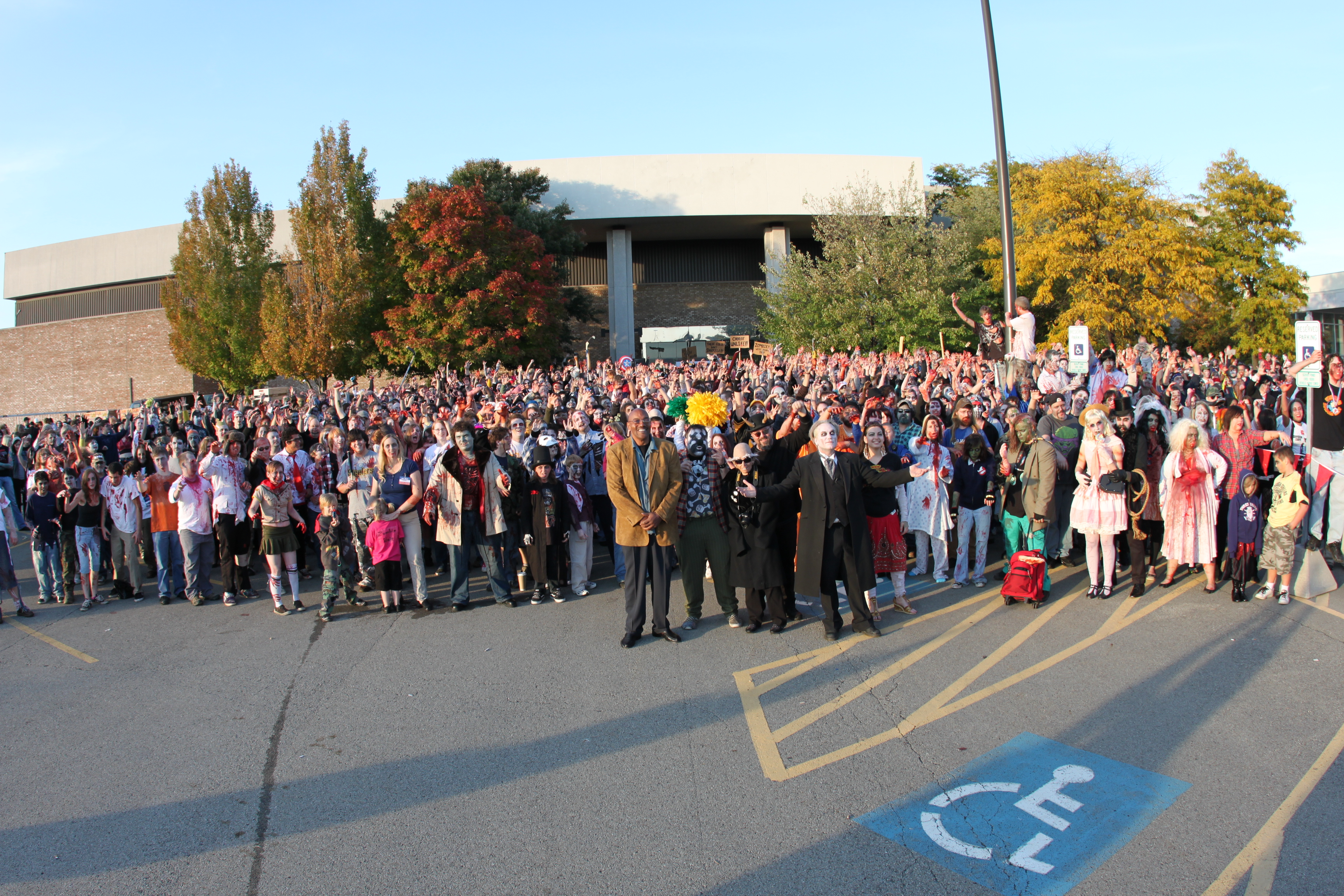 Large group of Zombie are taking in front of pictures October 11, 2009